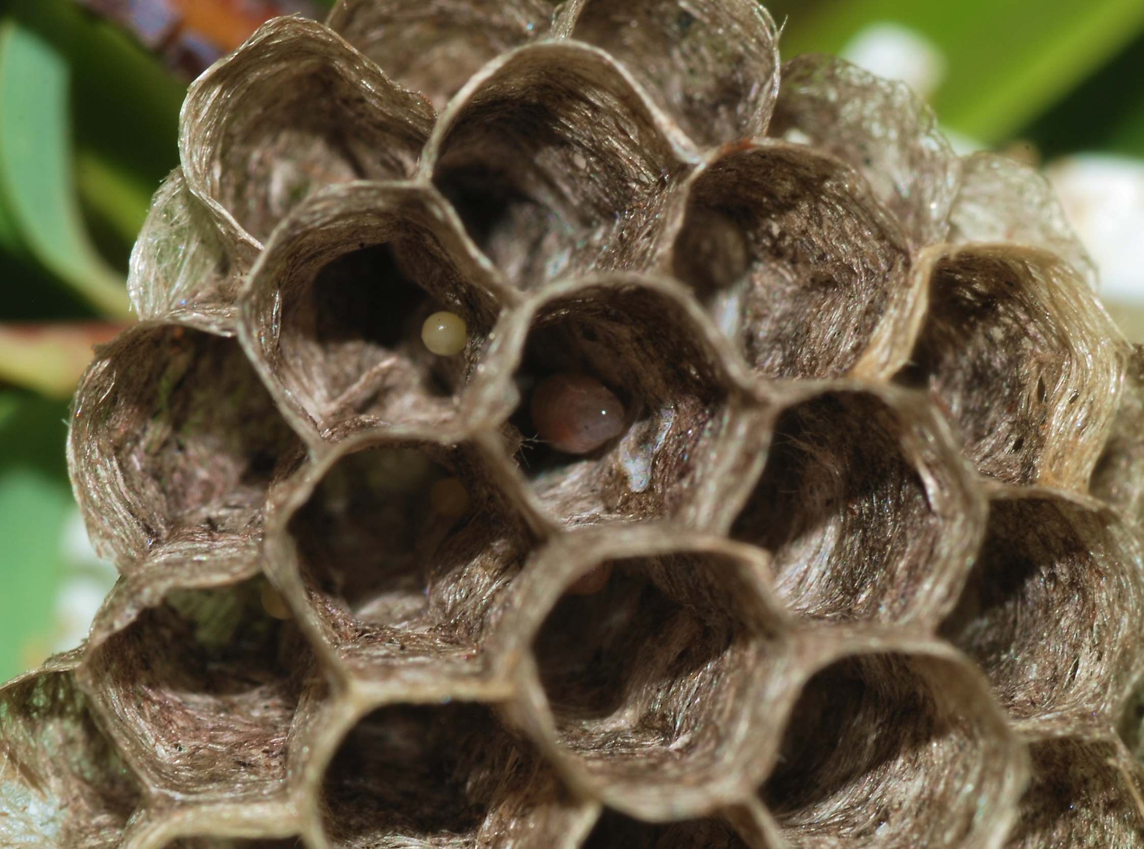 The nest of a paper wasp (Polites dominulus)